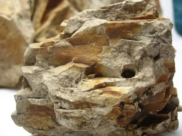 Limestone